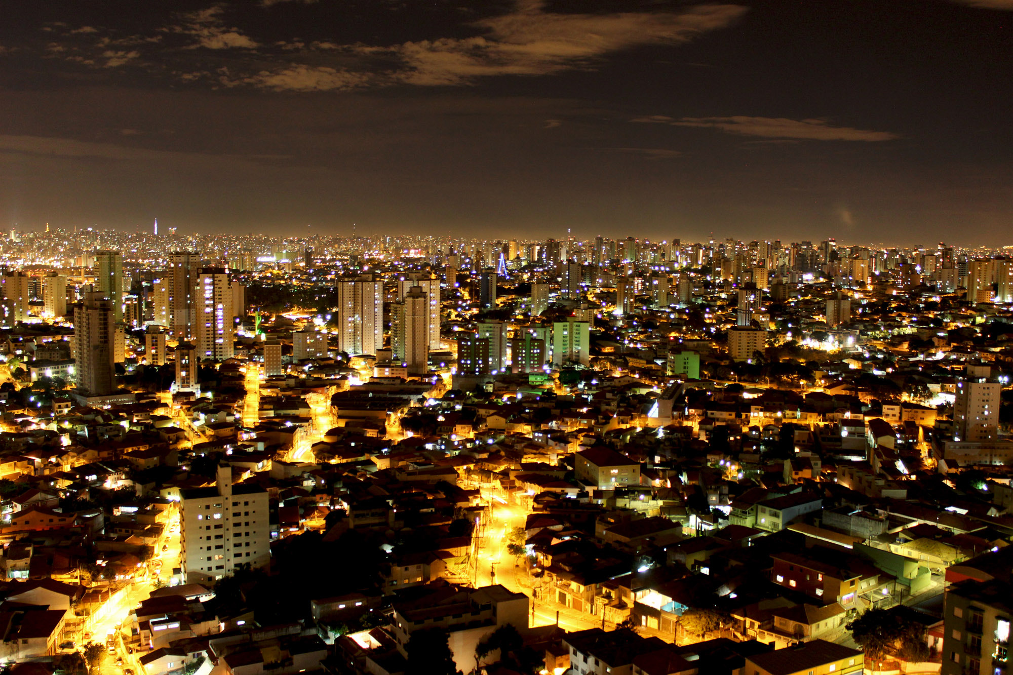 500px provided description: Photo taken in a condo at Tucuruvi's neighborhood in S?o Paulo / Brazil [#sky ,#city ,#street ,#downtown ,#night ,#buildings ,#architecture ,#new year ,#cityscape ,#lights ,#dark ,#skyline ,#eve ,#sp ,#brazil ,#shine ,#empire ,#night lights ,#nightlights ,#newyear ,#new years eve ,#newyearseve ,#2014 ,#sao paulo]